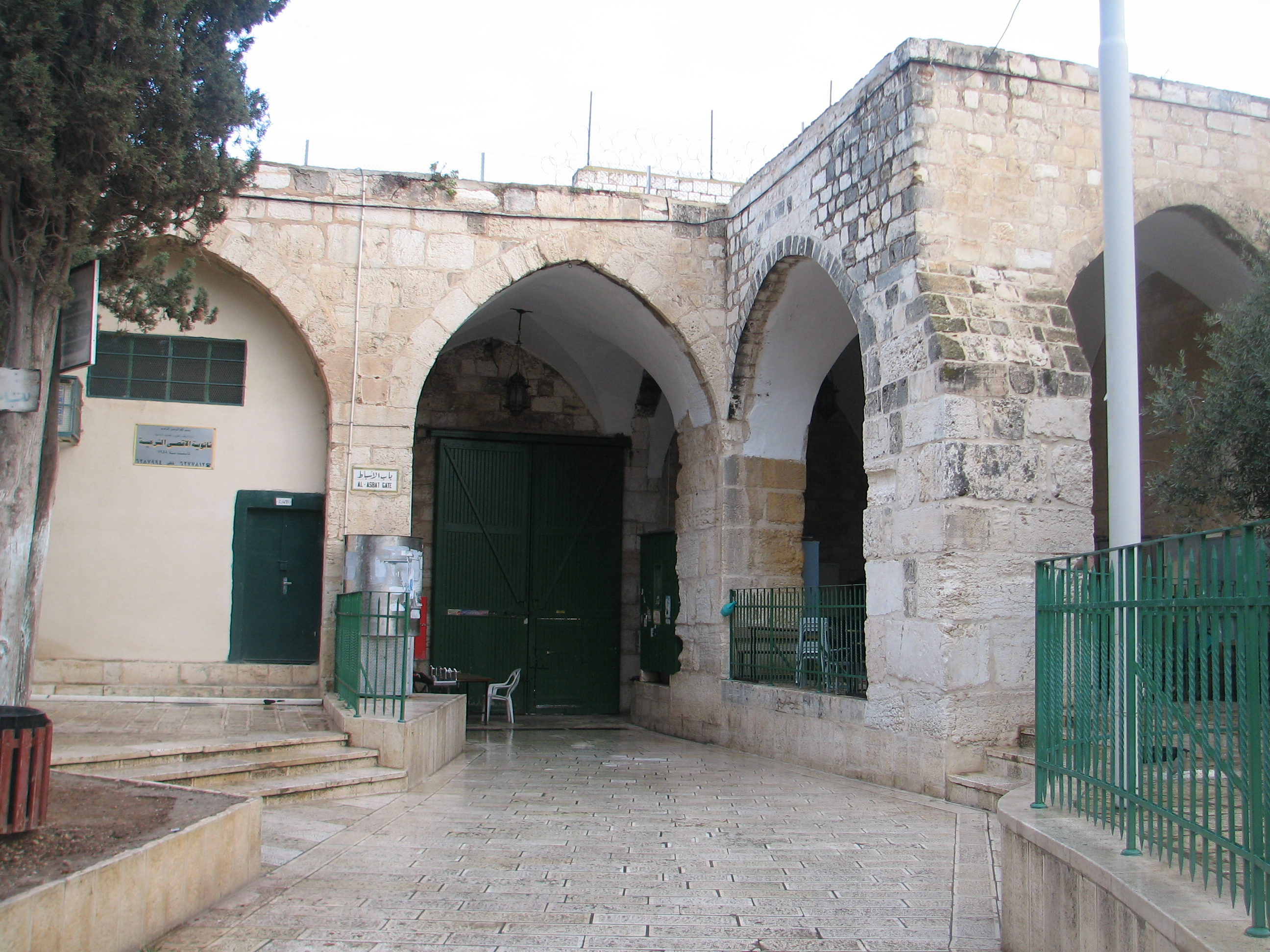 Al-Aqsa Mosque